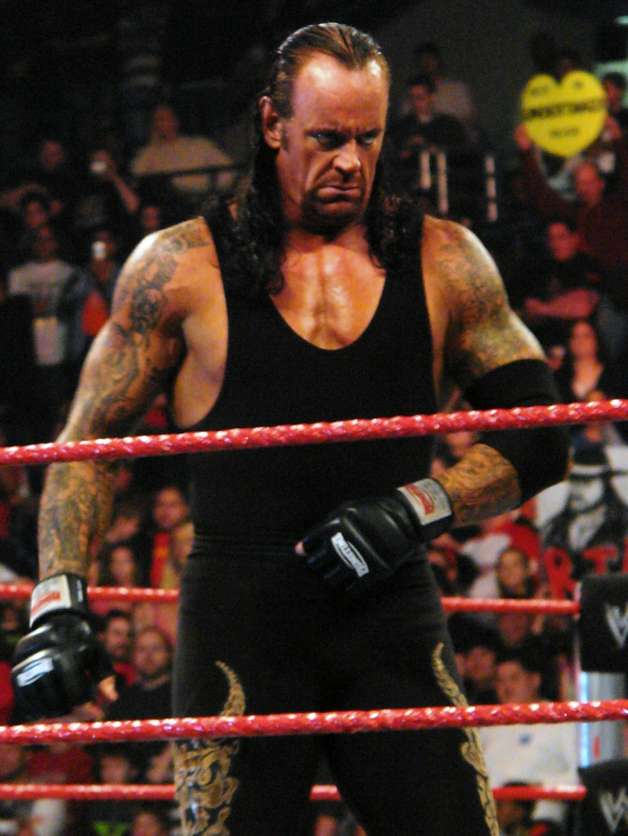 The Undertaker on WWE Raw. Bradley Center; Milwaukee, WI. Taken by myself.